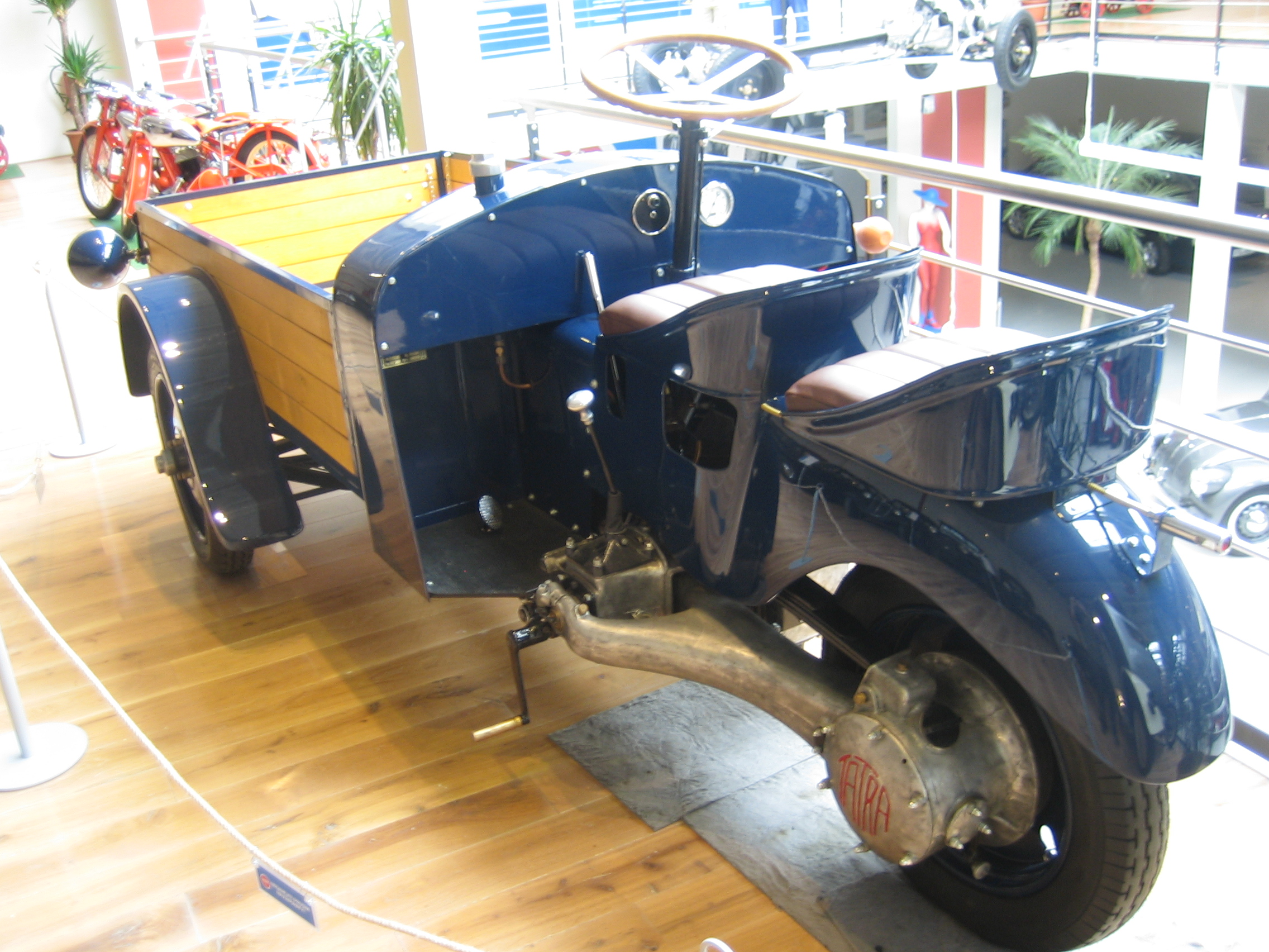 Tatra 49 rear; shot taken in Veteran Arena Olomouc